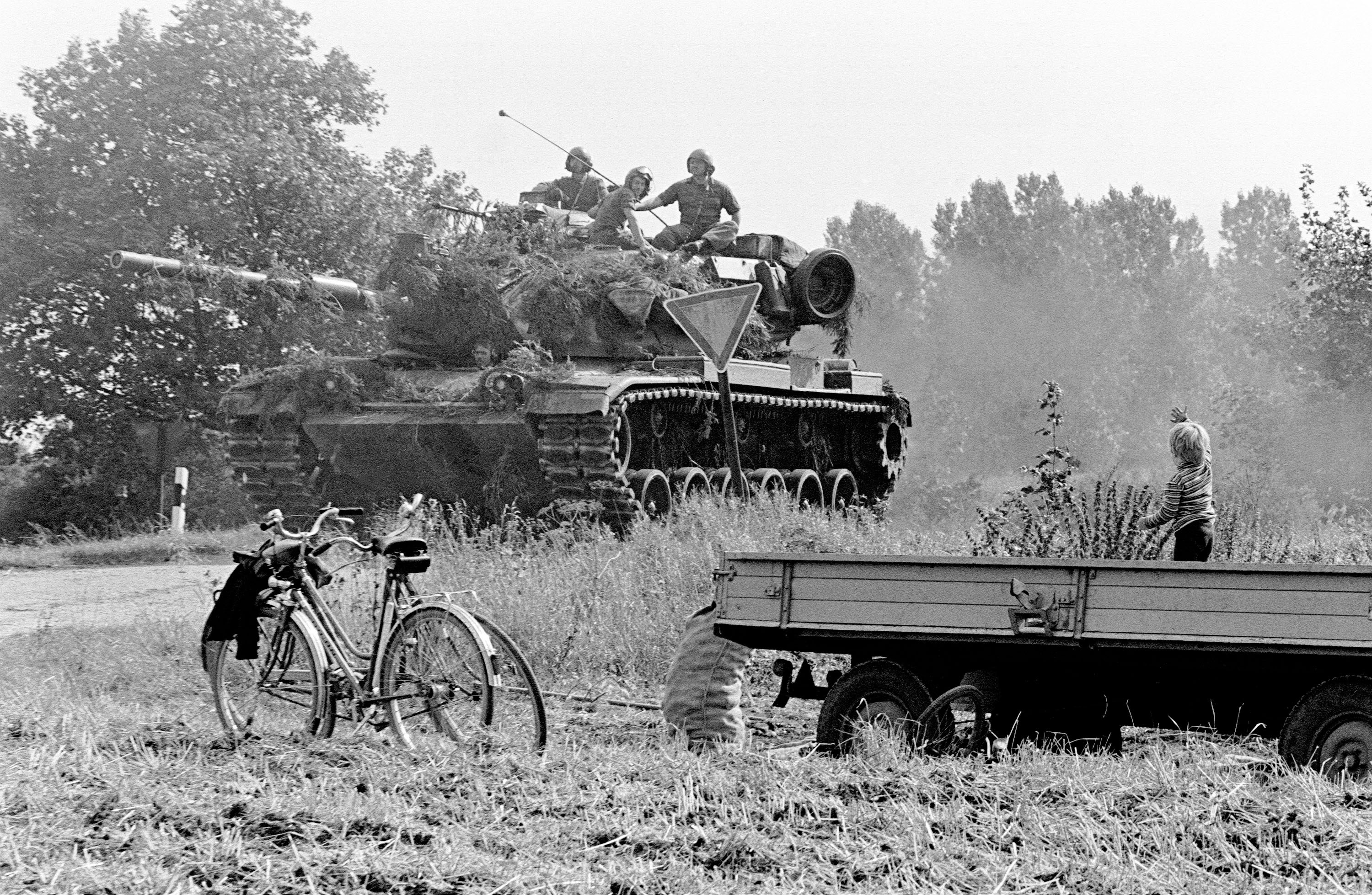 A small child, right, waves as a US Army tank (M60A1 due to lack of crosswind sensor) passes while participating in exercise REFORGER/AUTUMN FORGE 1980. AUTUMN FORGE is a reserve airdrop and associated ground movements taking place both here and in Germany and involving mostly US and British troops and equipment.